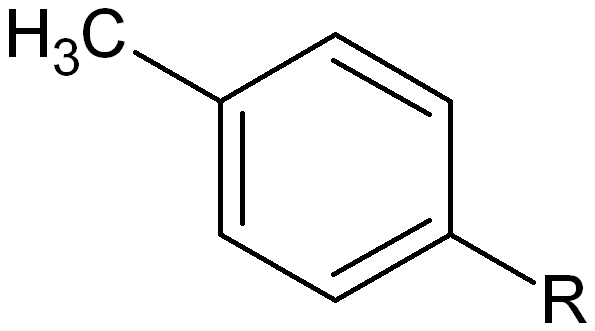 Tolyl group (aryl group)